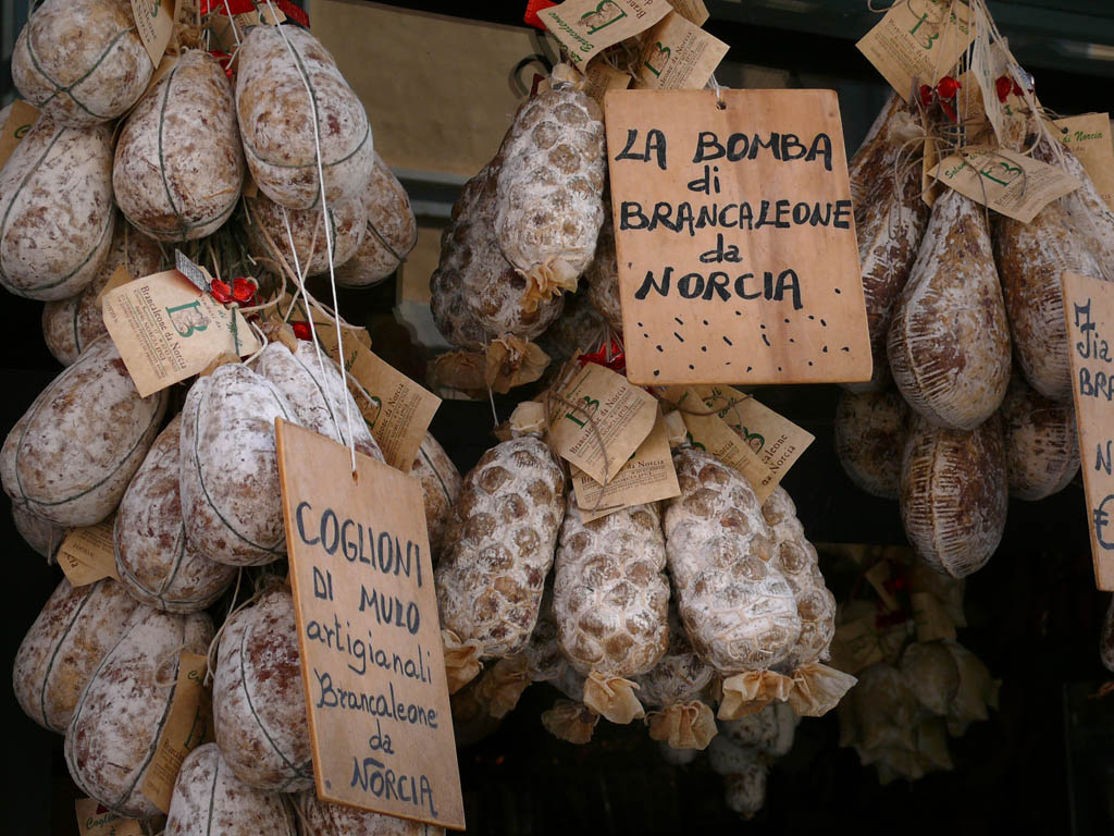 Norcia is famous for it's sausages